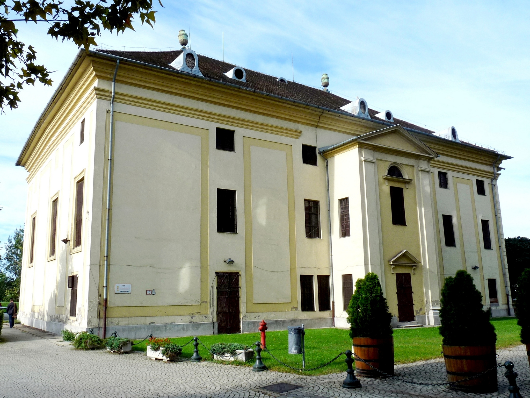 Budapest's oldest synagogue, built in 1821 in classic style. Architect: Andreas Landesherr.